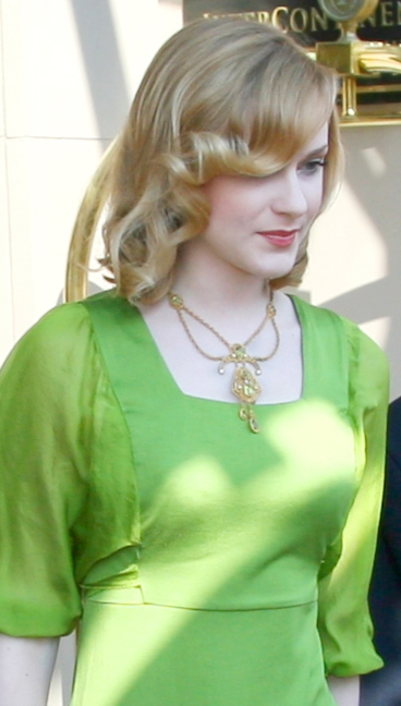 Evan Rachel Wood at the 2007 Toronto International Film Festival